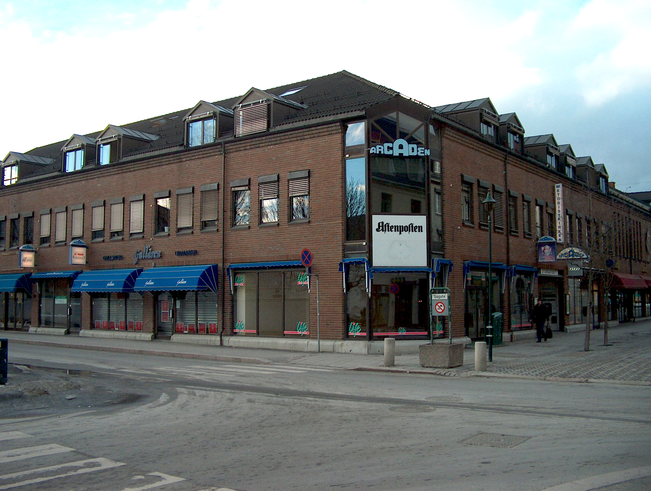 Arcaden i Hønefoss (Norway)